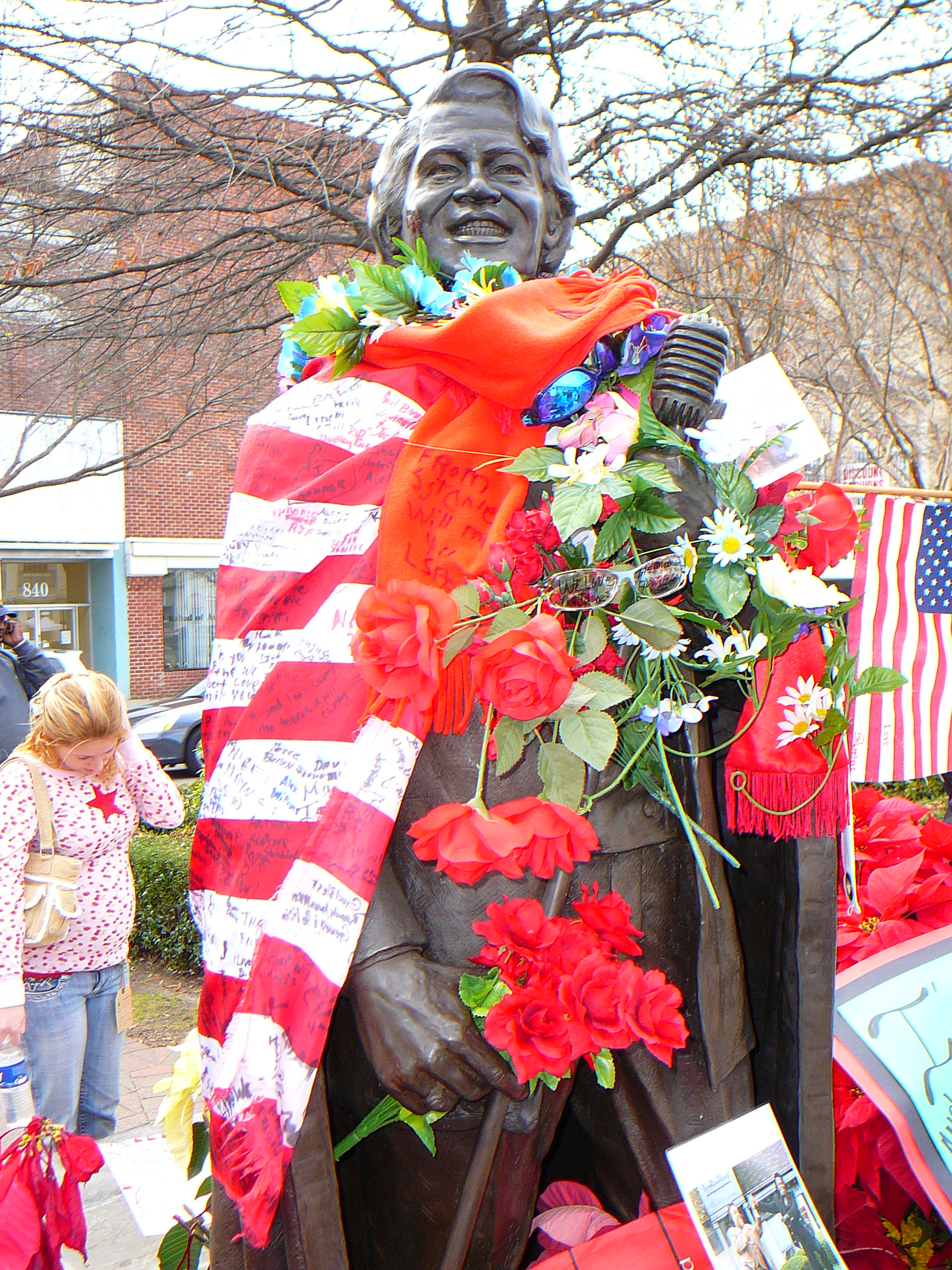 James Brown Memorial, Statue, Augusta, Georgia